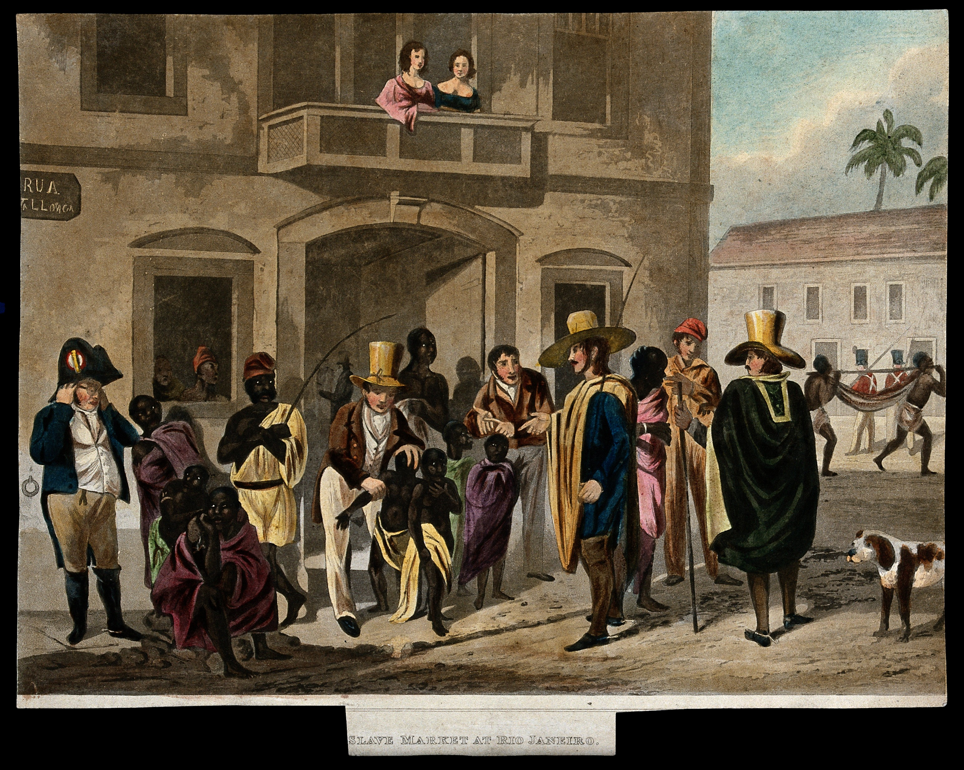 European men examining slaves at the slave market of Rio de Janeiro. Iconographic Collections Keywords: Maria Callcott; Slavery; Edward Francis Finden; Augustus. Earle